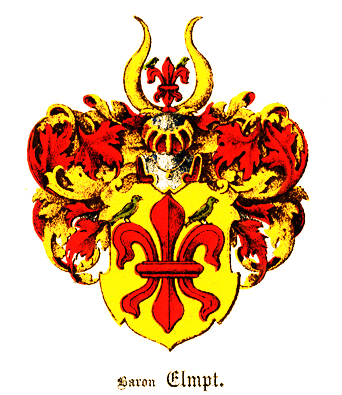 Coat of Arms of Elmpt family